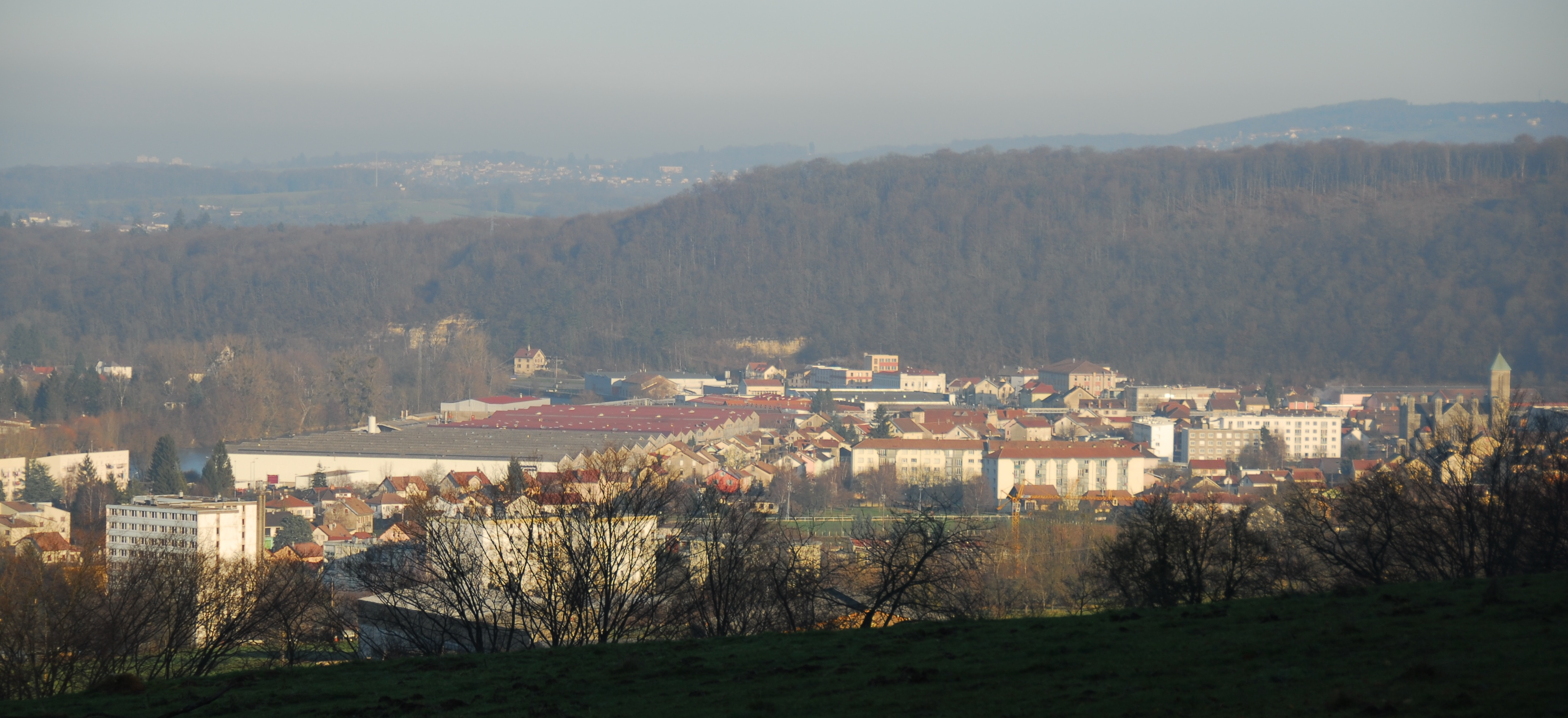 Mandeure — "Beaulieu" district